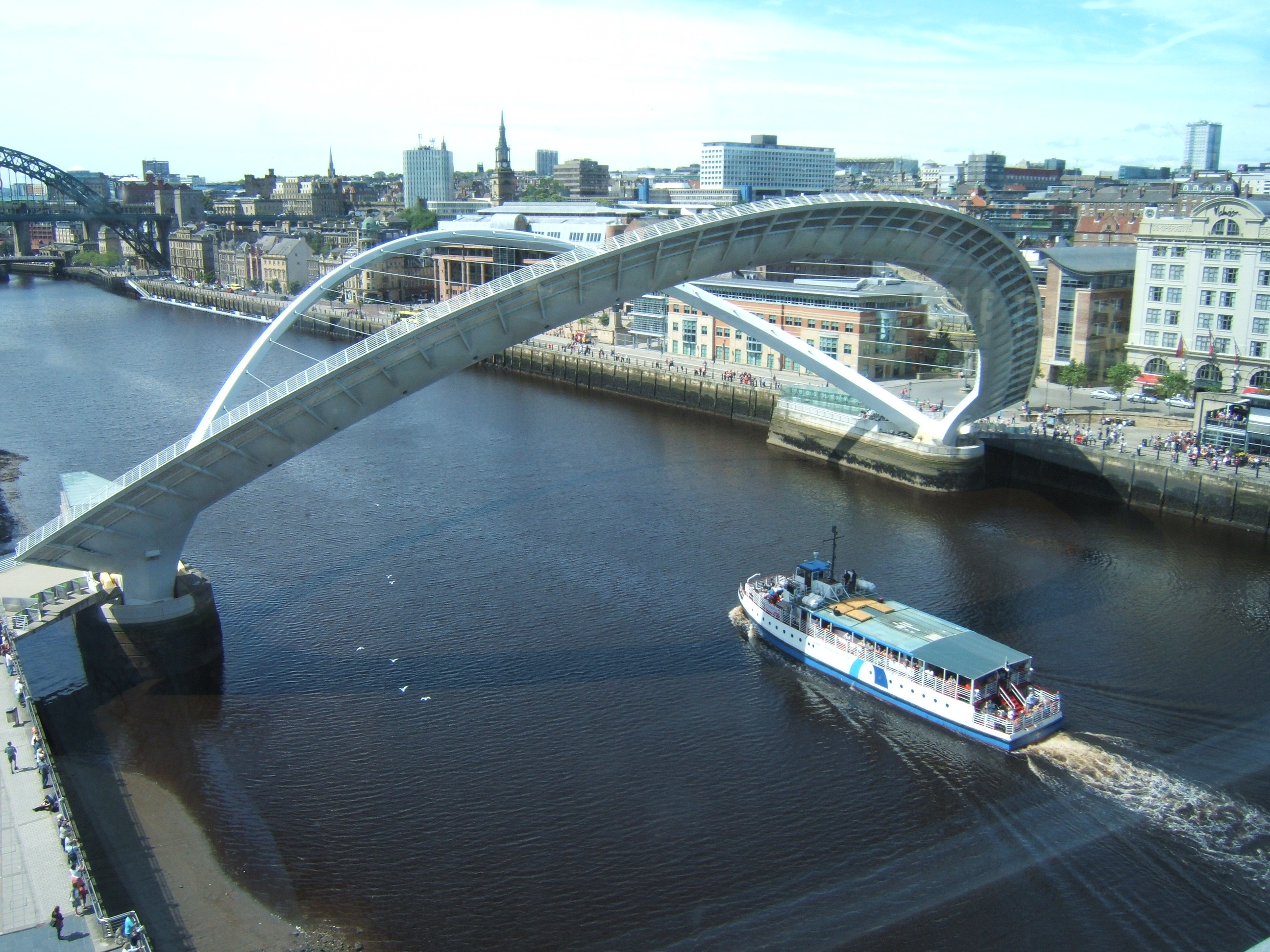 Boat sailing under the Millennium Bridge